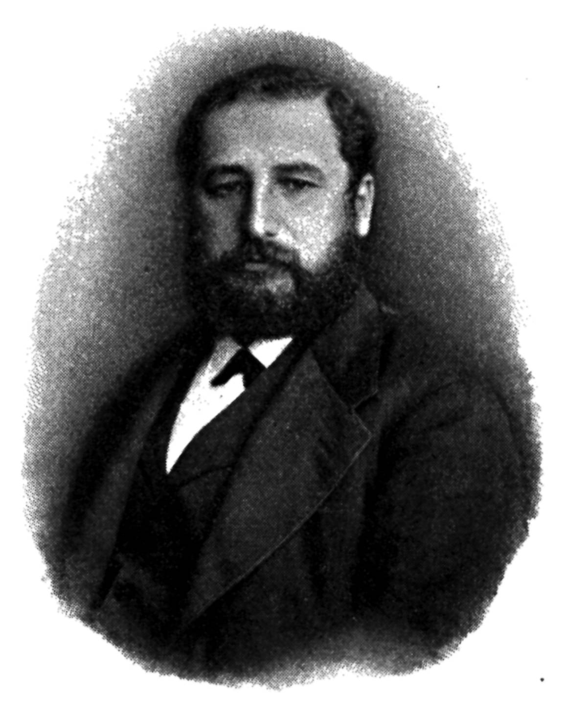 Louis Waldenburg (1837–1881), German internist